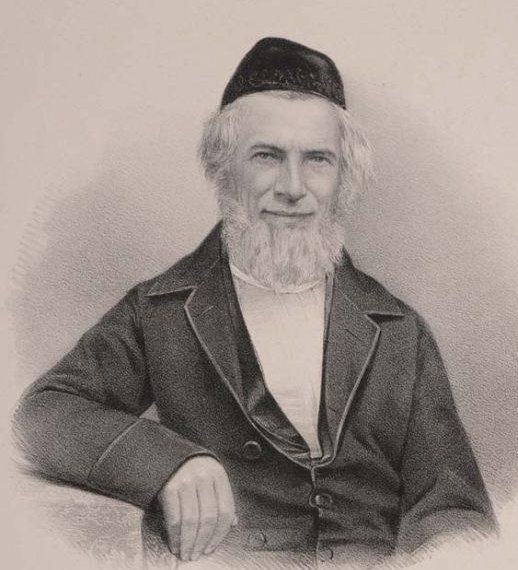 Rabbi Jaakov Jokev ben Aharon Ettlinger (Karlsruhe 1798-1871 Altona), lithograph by C. Casler, dated c. 1850